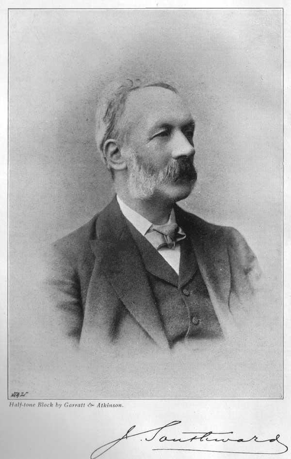 Photograph of John Southward (1840–1902), English writer on printing and typography.